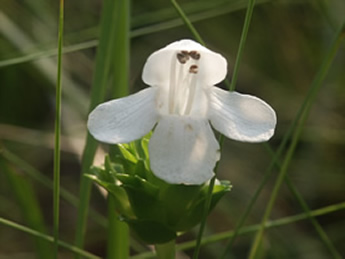 Macbridea alba USFWS photo